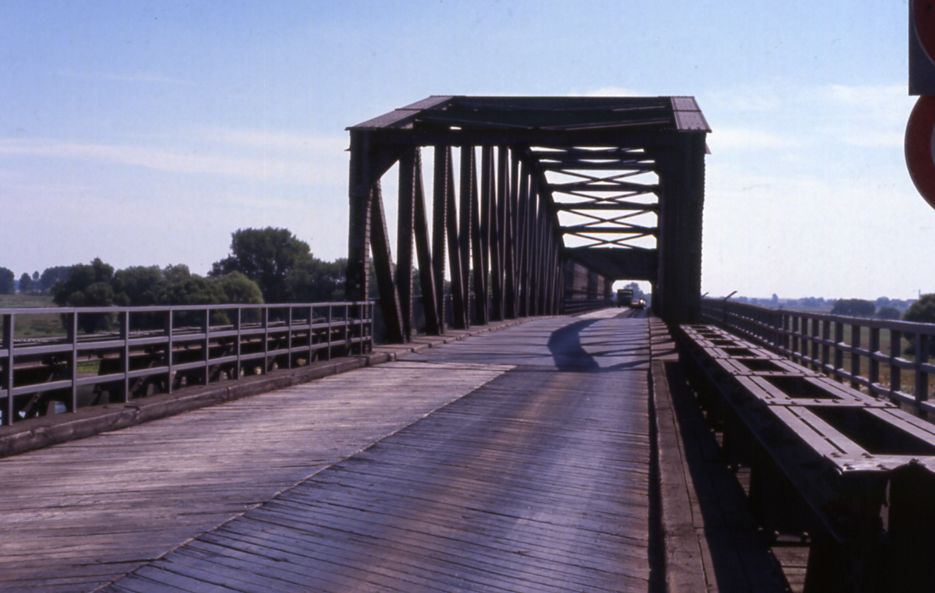 Tangermuende: Bridge across river Elbe in 1990 with wooden carriageway; meanwhile there is a new bridge at that site